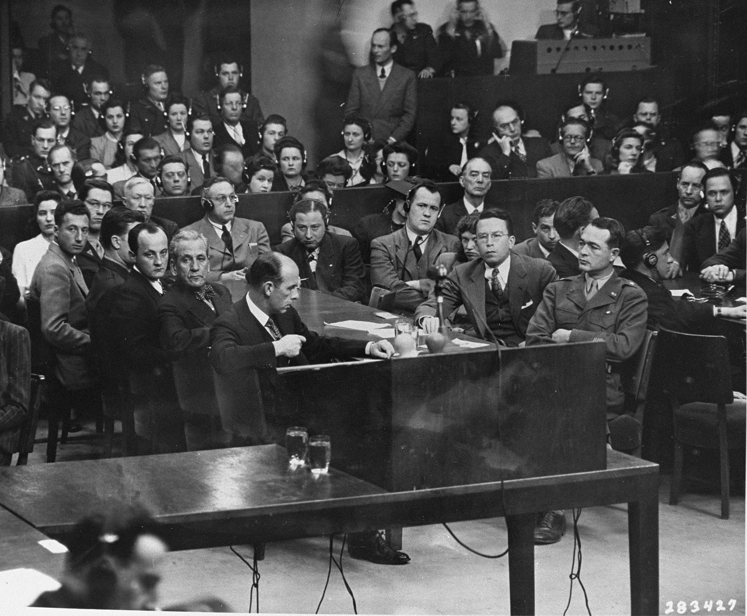 (The prosecution team in the Milch Trial. Front right is Brigadier General Telford Taylor. To his right, attorney Henry T. King, Jr. Across from Taylor is Clark Denny. Image from .